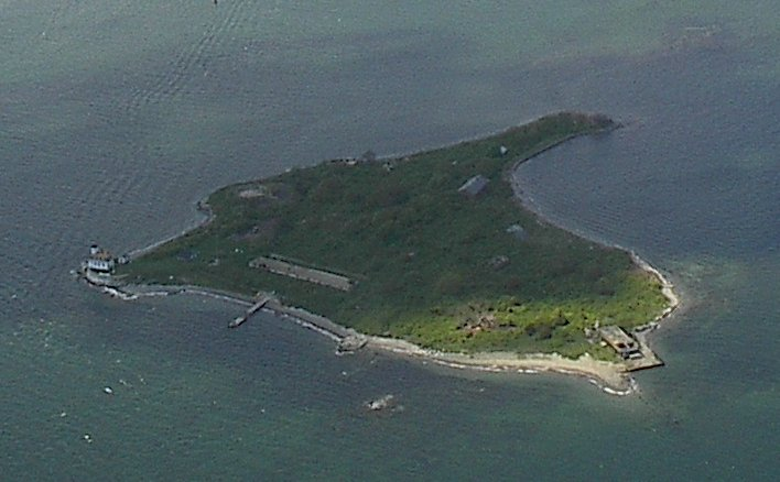 Rose Island, located in the Narragansett Bay, in the U.S. state of Rhode Island. Photo taken May 30, 2005, by me. Originally incorrectly identified as Hope Island.